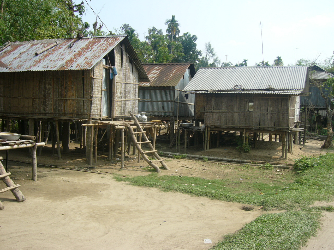 Authour: Shahnoor Habib Munmun